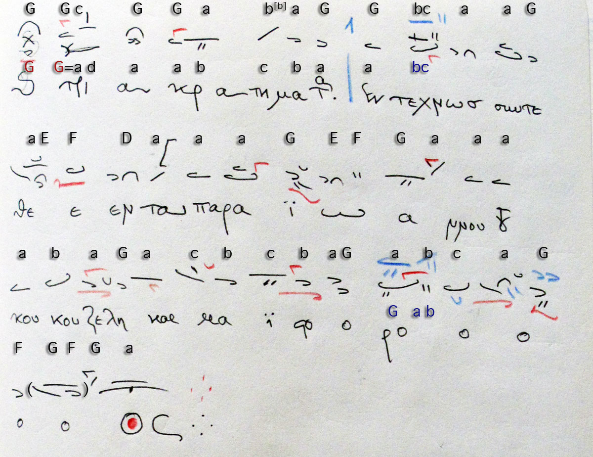 Conclusion of John Koukouzeles' "Mega Ison" (last section echos protos); copy and transcription of Biblioteca apostolica vaticana, Ms. ottob. gr. 317, fol. 5v-7v & Ms. vat. gr. 791, fol. 3v-5.